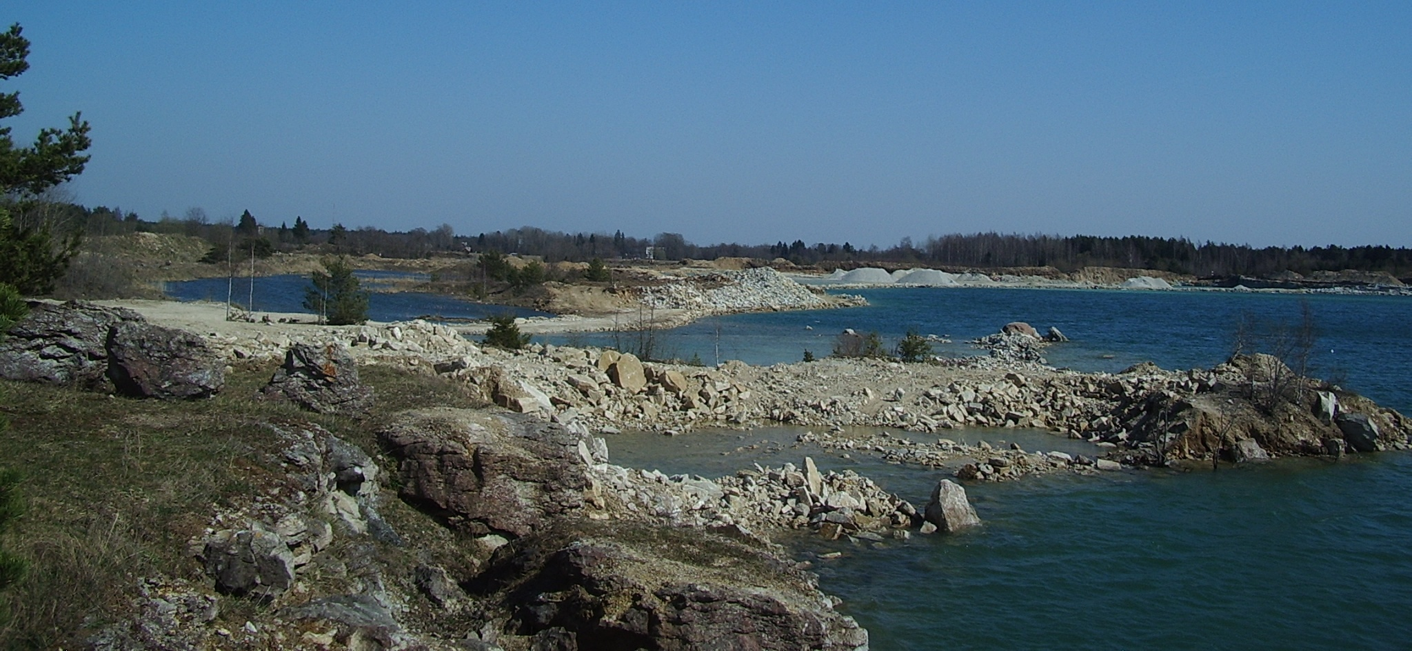 Slate strip mine in Rummu, Vasalemma parish, Harju county